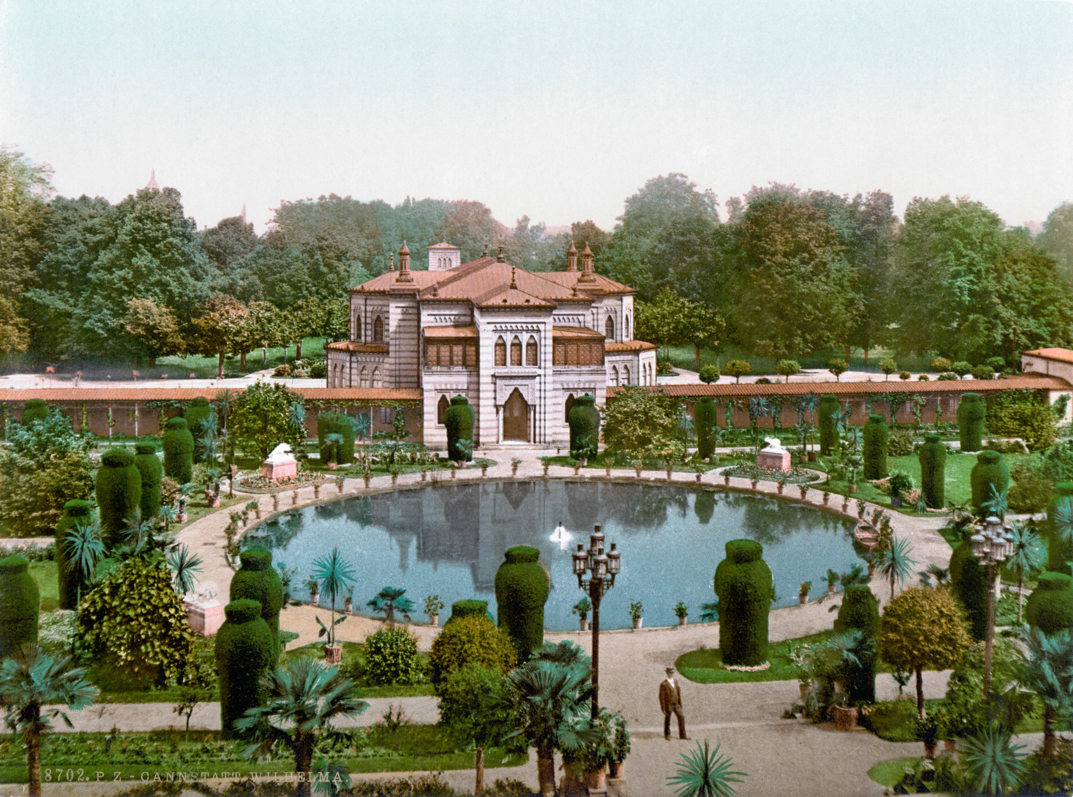 Then royal garden Wilhelma in Cannstatt (now Stuttgart zoo) around 1900, view from the residential building to the southeast: inner or moorish garden and "Festsaal" (grand hall, destroyed in WW II)